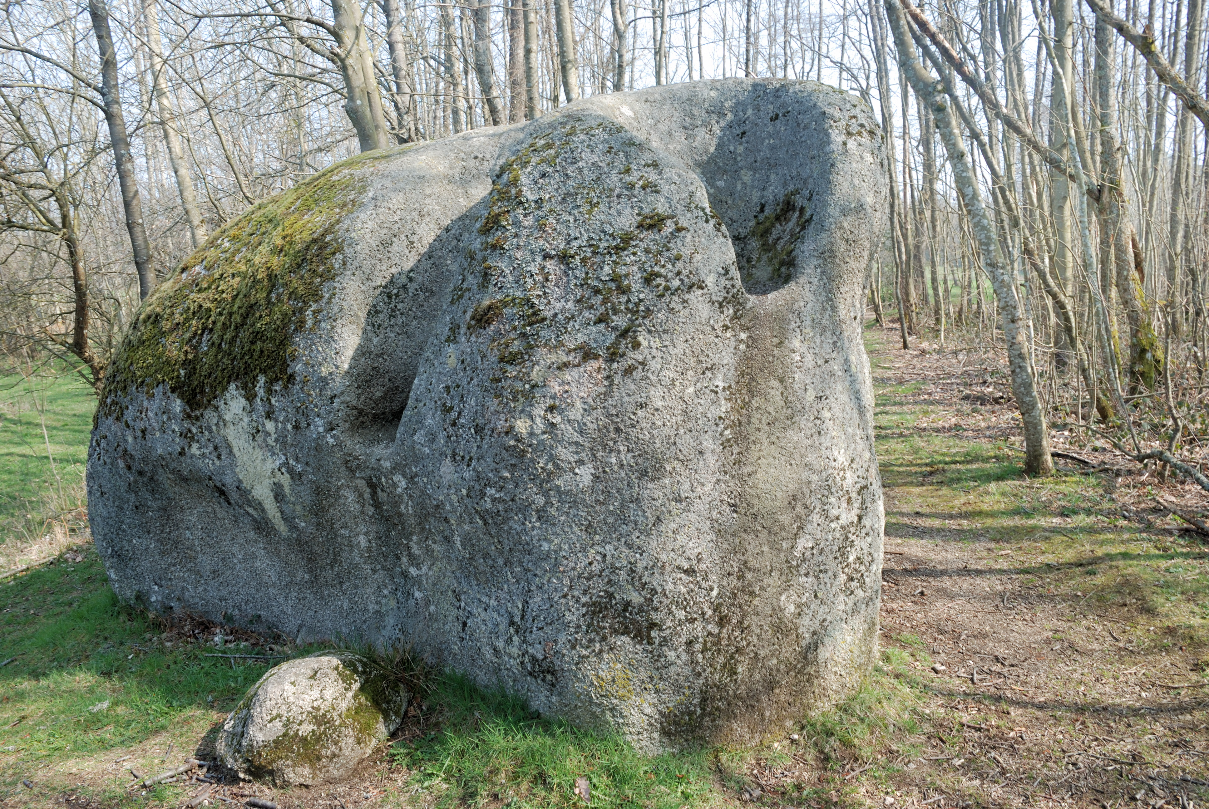 "Pierre de sang" (stone of blood) (commune of Lachaux, Puy-de-Dôme, France). Position : N 45° 58' 22.3" E 003° 36' 11.8"